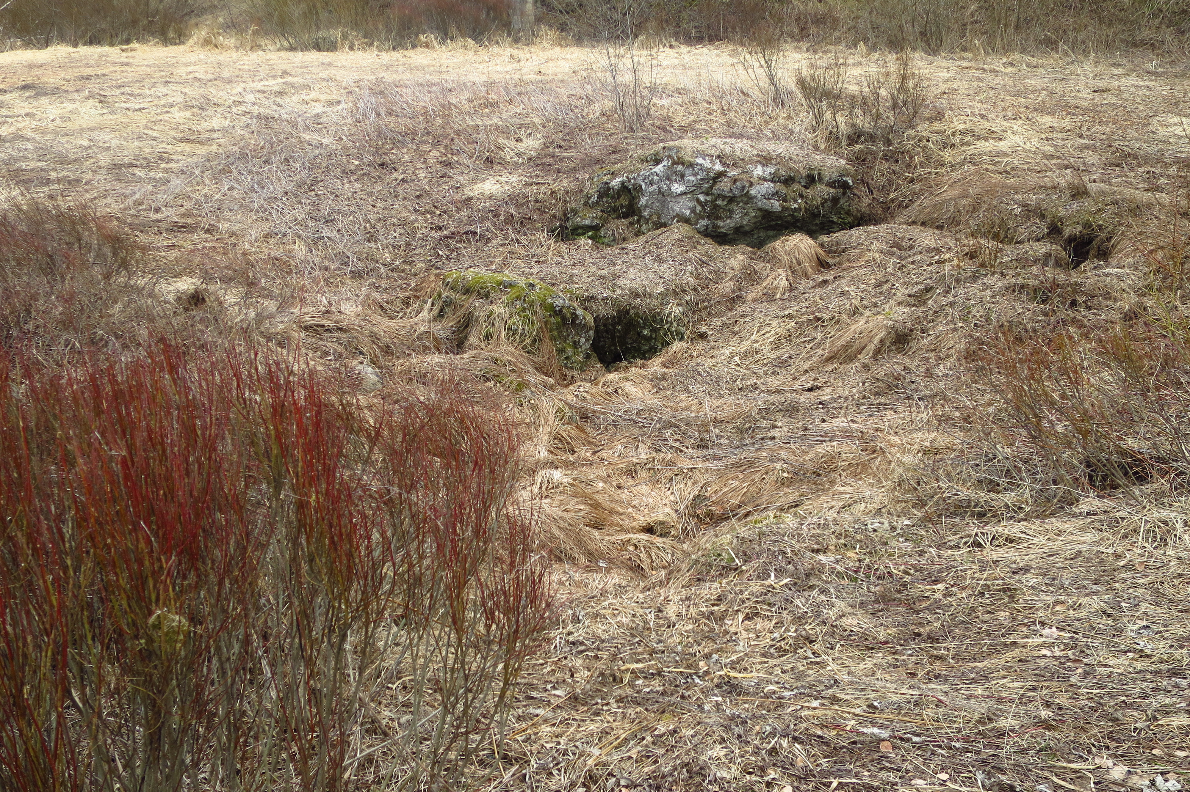 Karstilehter Einjärve karstinõos